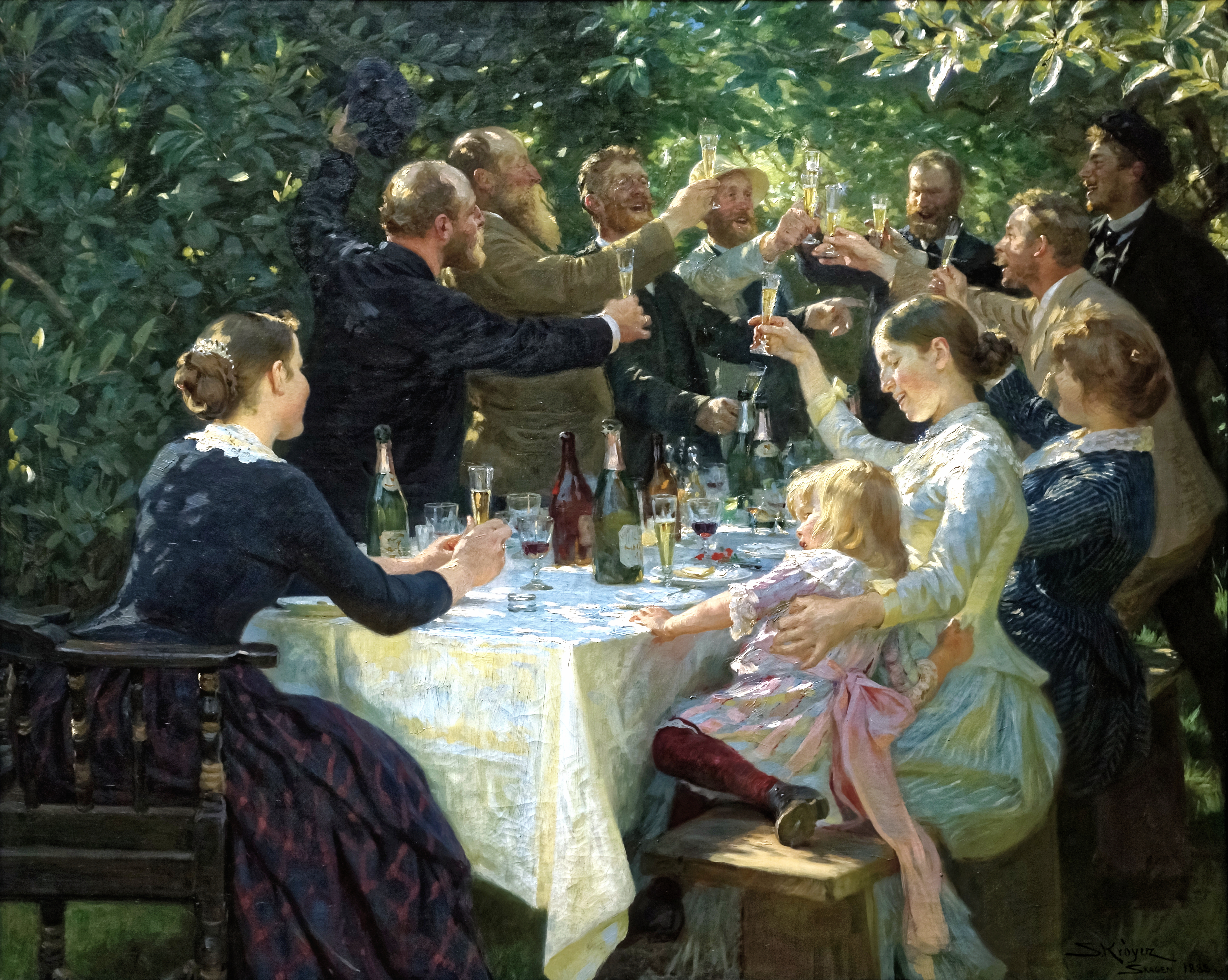 This is a photo of an artwork at the Gothenburg Museum of Art in Sweden with the identifier: F 62